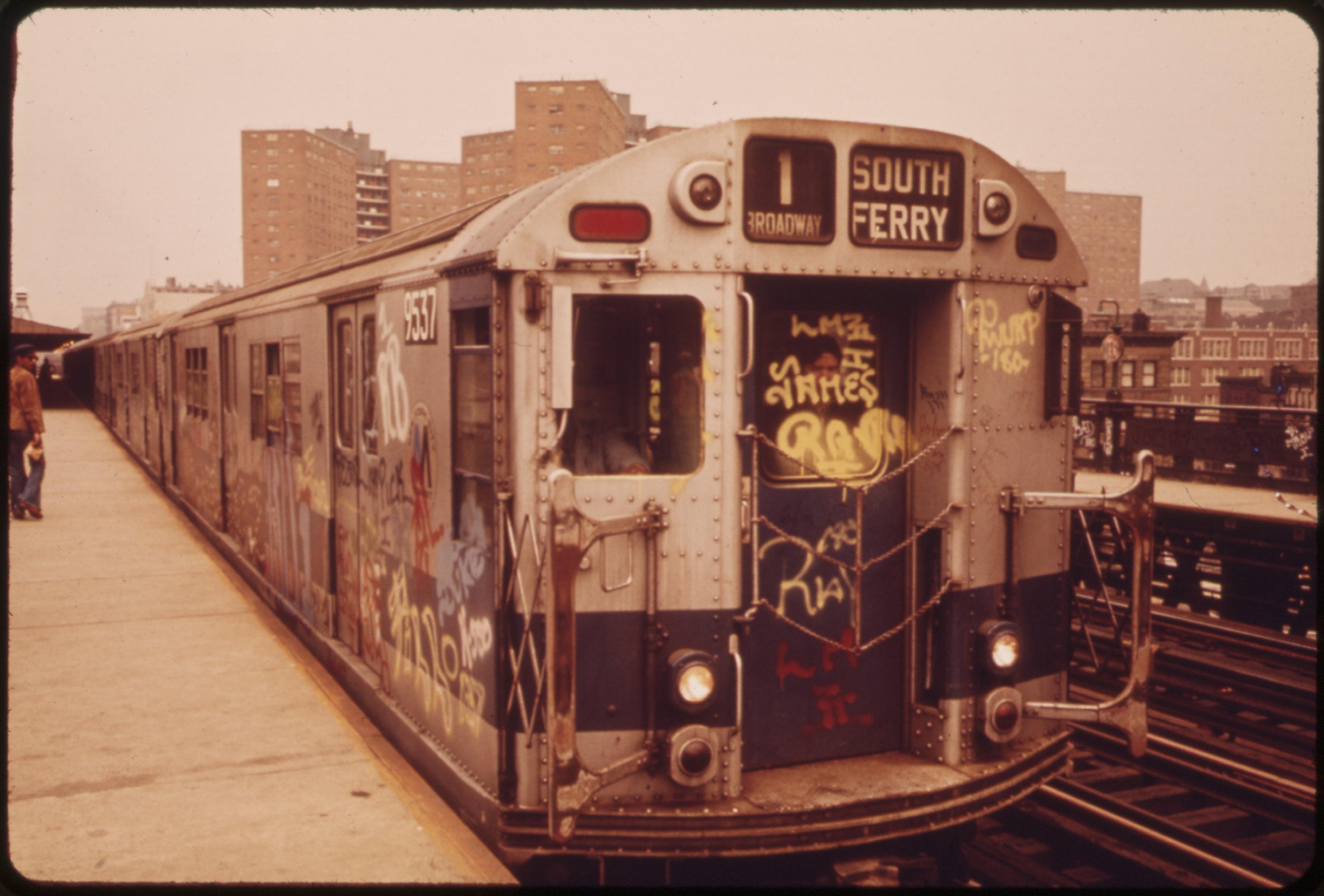 Graffiti on subway train (1973)